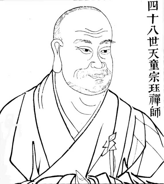 Image of Tiantong Zongjue, a 12th century Chinese Zen monk